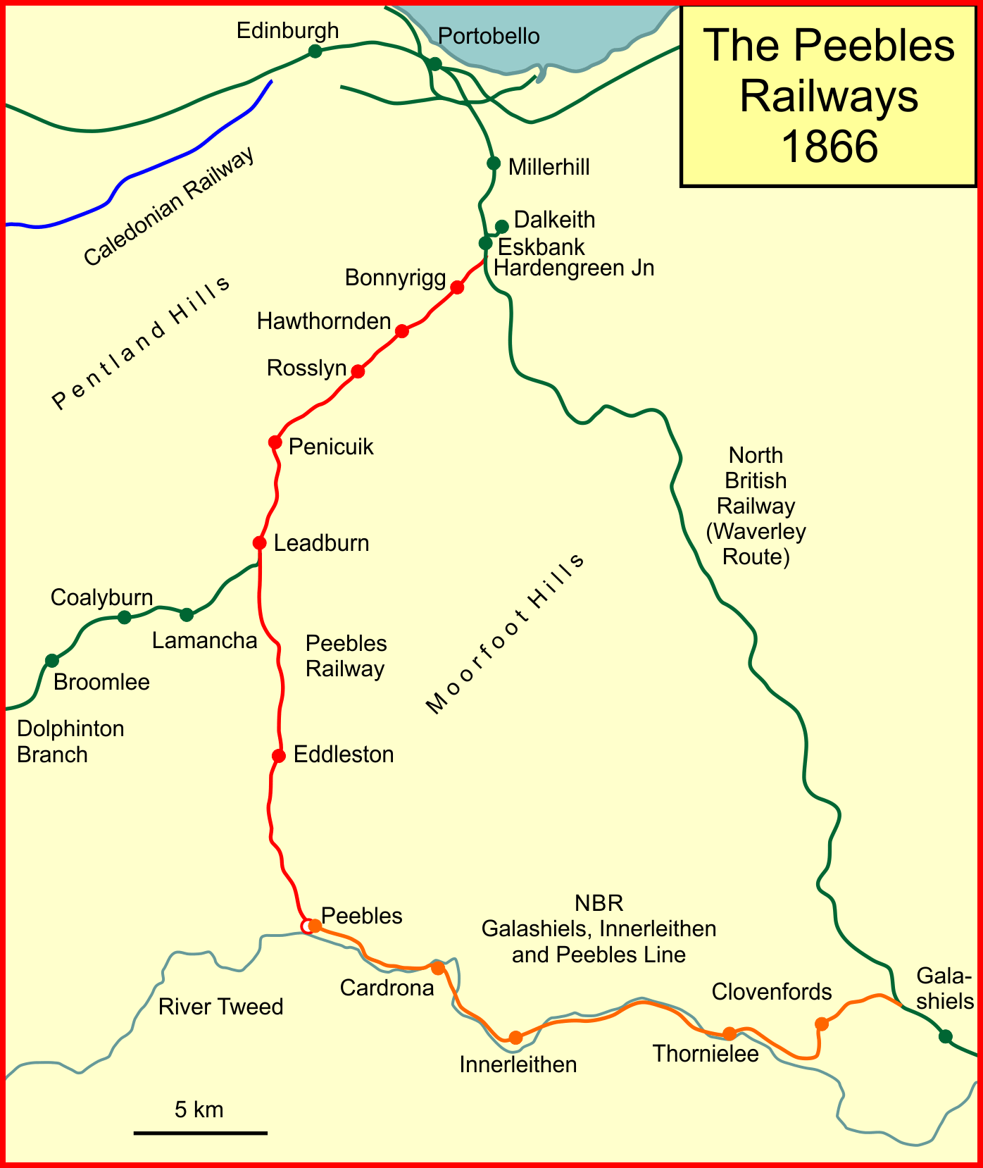 System map of the Peebles Railway, Scotland, and connected lines in 1866